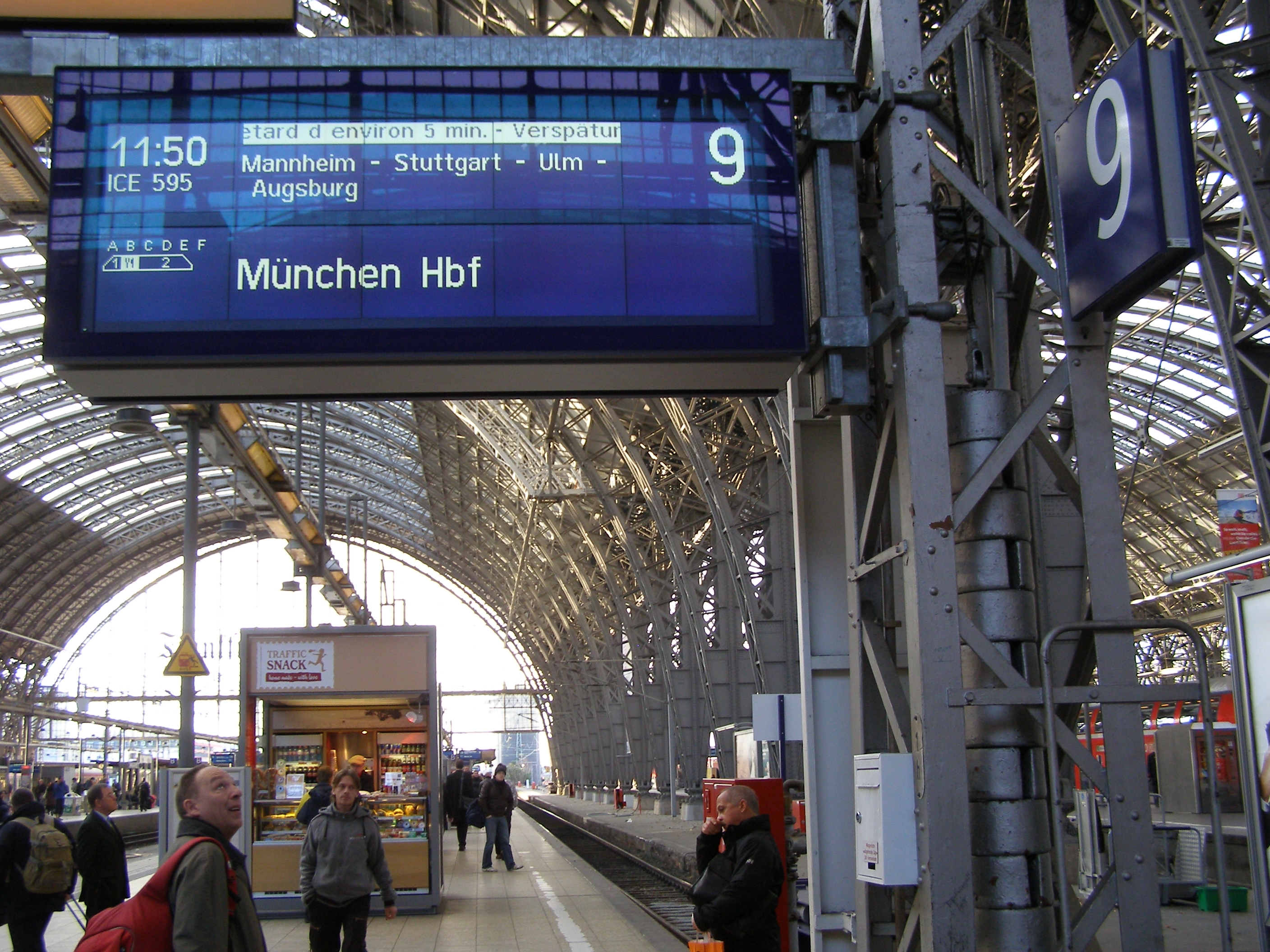 Frankfurt (Main) Hbf. - platform display